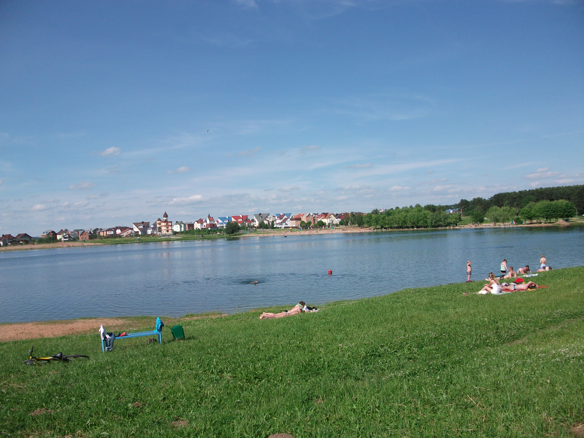 Tsnyanka Reservoir